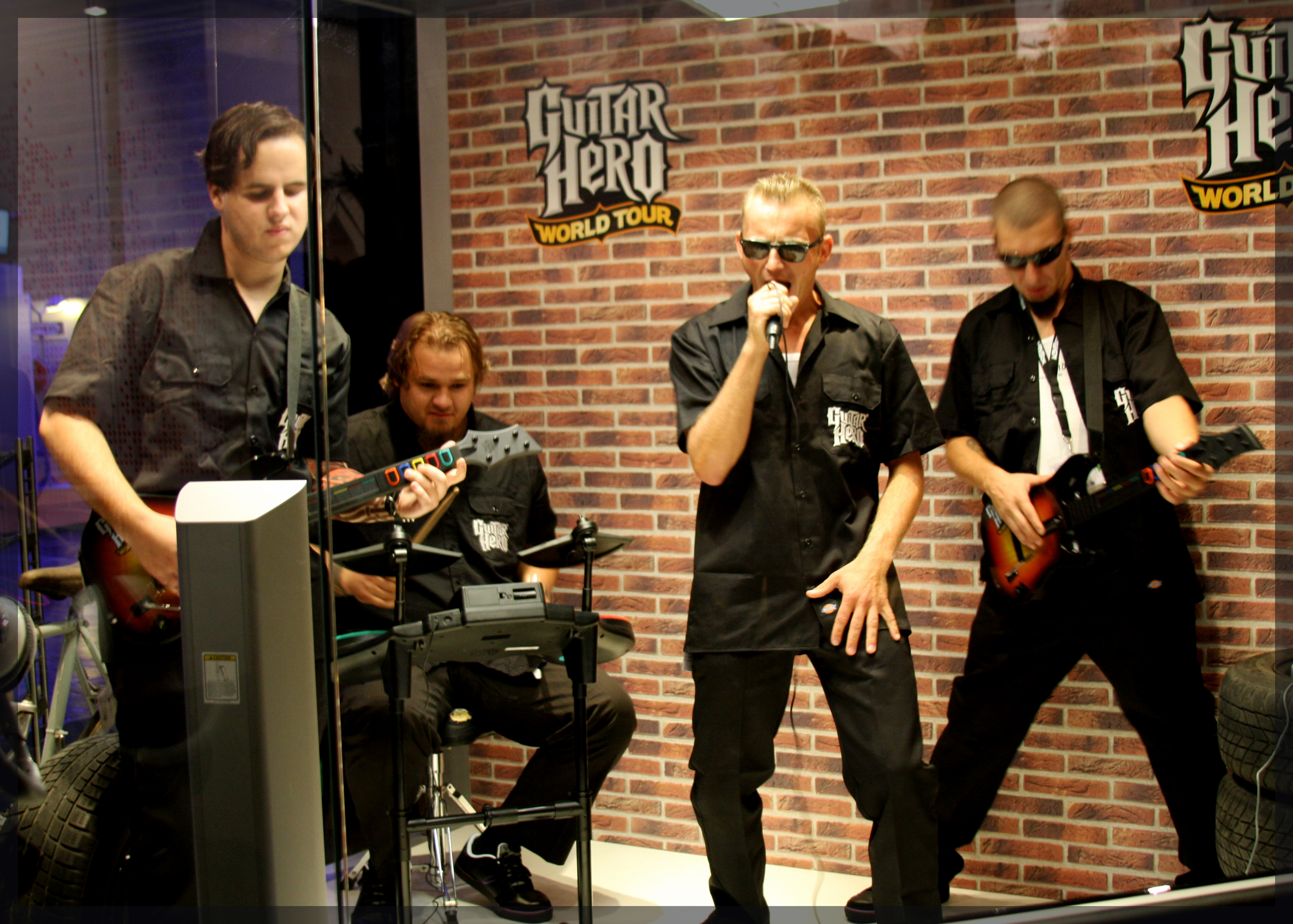 The Guitar Hero area had several soundbooths with people performing. You could put on headphones to listen. You can see the similarities and differences to RockBand by looking at the instruments. The RockBand booth was not nearly as exciting, sadly. Game Convention Leipzig, Germany